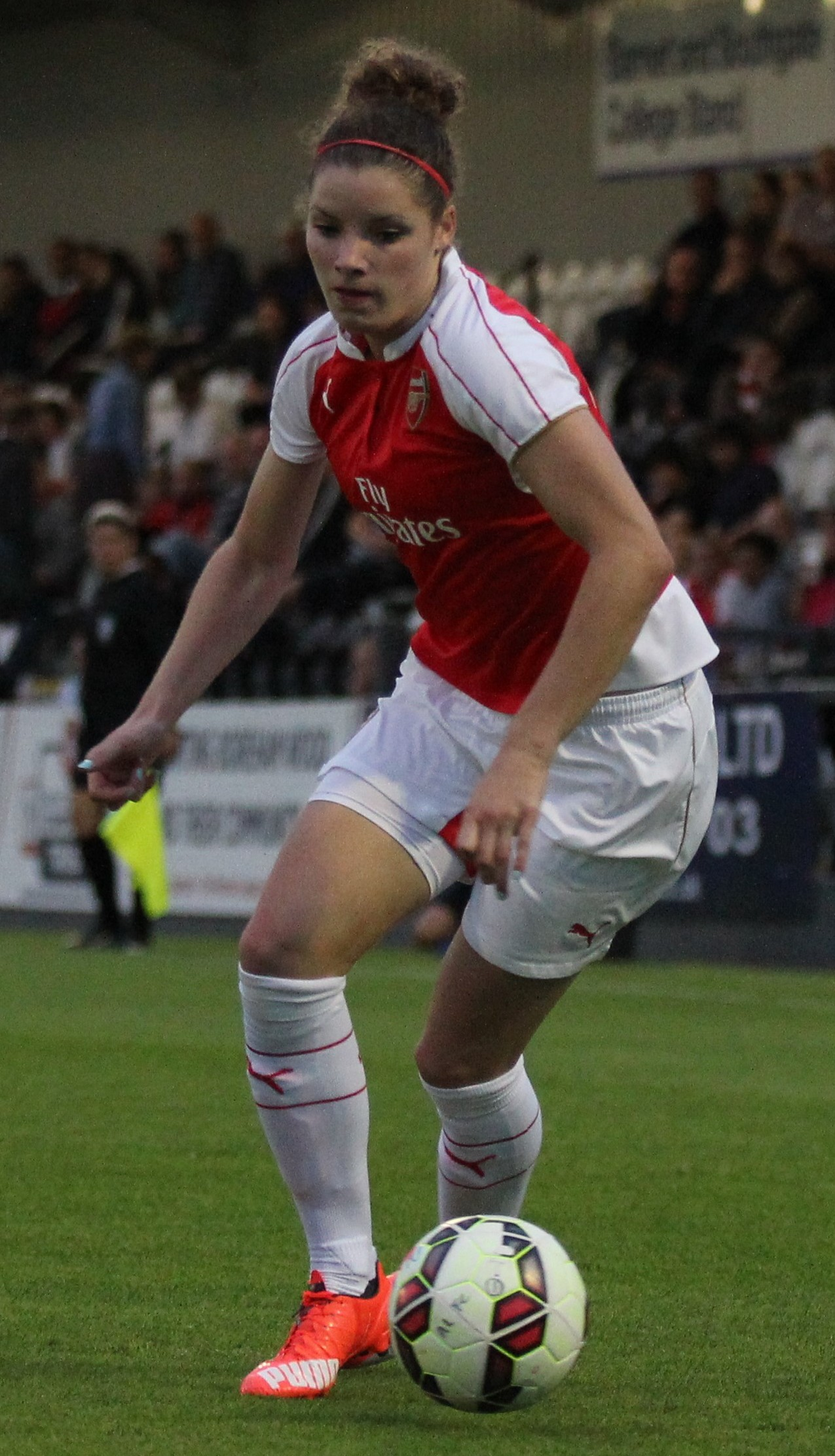 Dominique Janssen of Arsenal Ladies on the ball during the game against Watford.